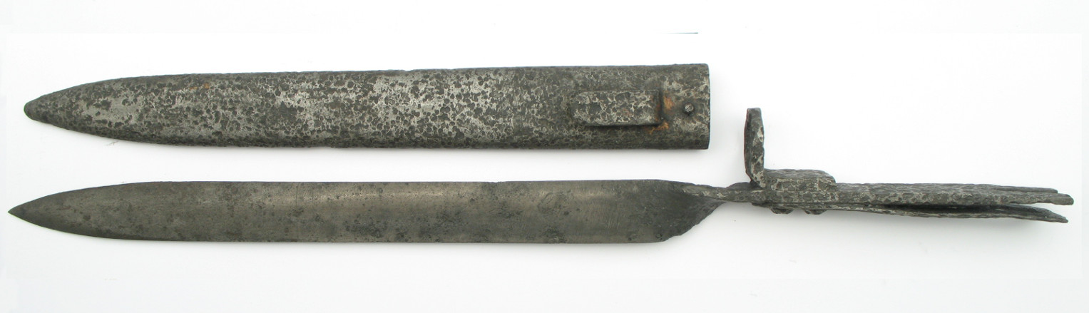 Mannlicher Ersatz Bayonet (unknown type)